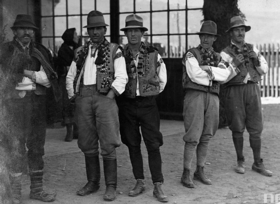 HUtsuls. Old prewar photograph, ca. 1935.